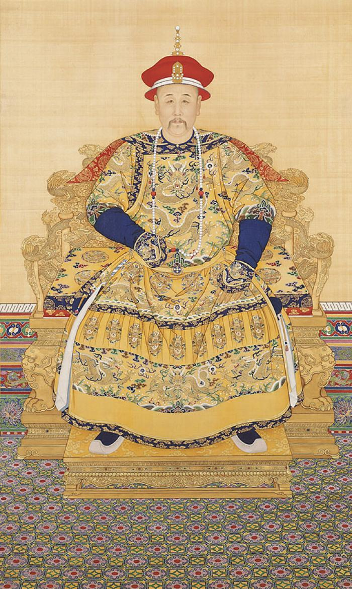 Portrait of the Yongzheng Emperor in Court Dress, by anonymous court artists, Yongzheng period (1723—35). Hanging scroll, colour on silk. The Palace Museum, Beijing.